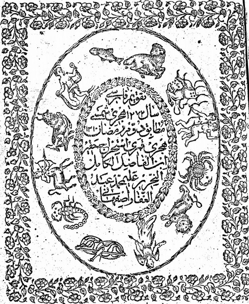 Iranian calendars